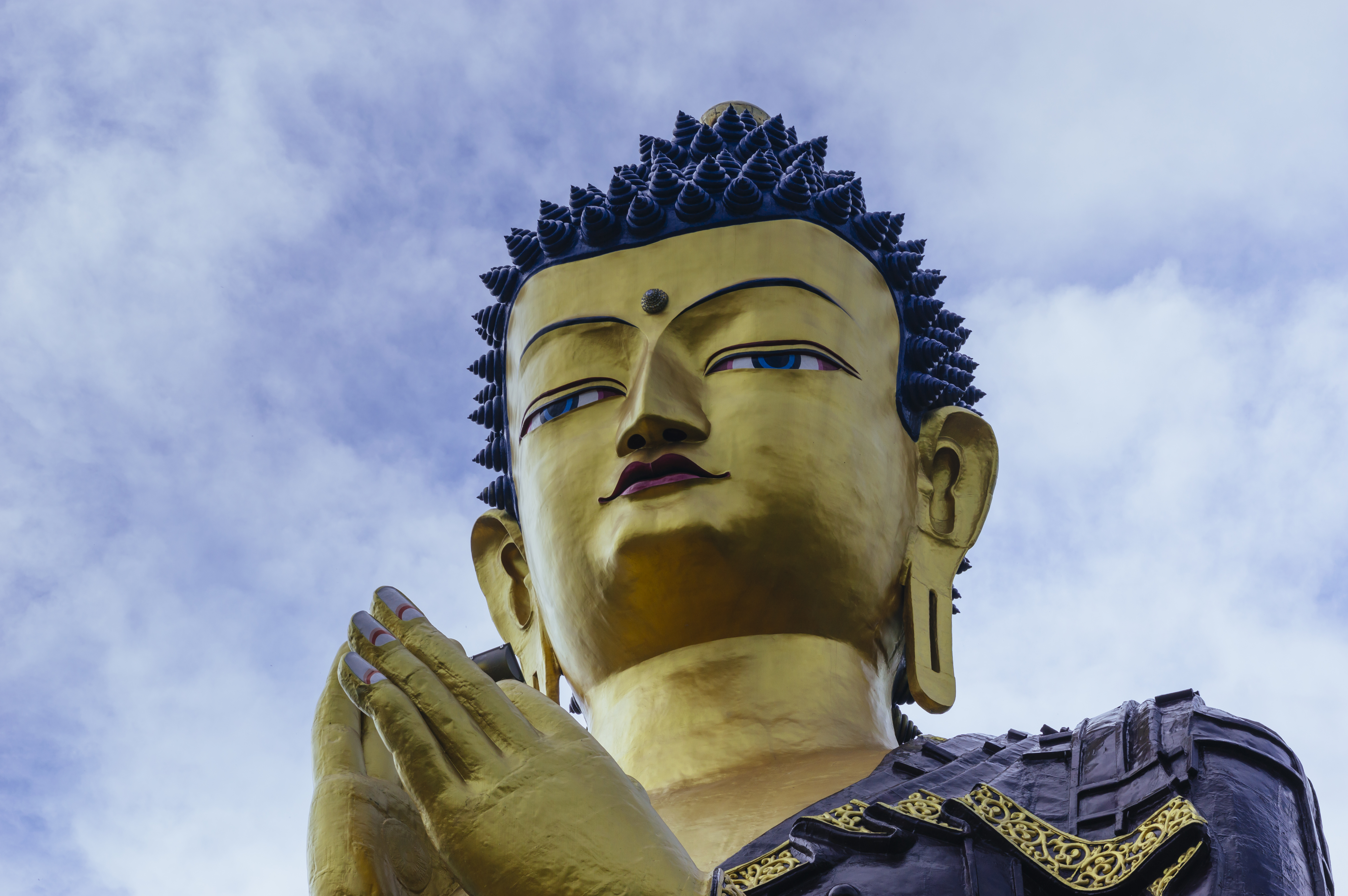 Closeup head shot of giant Gautama Buddha statue in Buddha Park of Ravangla, Sikkim